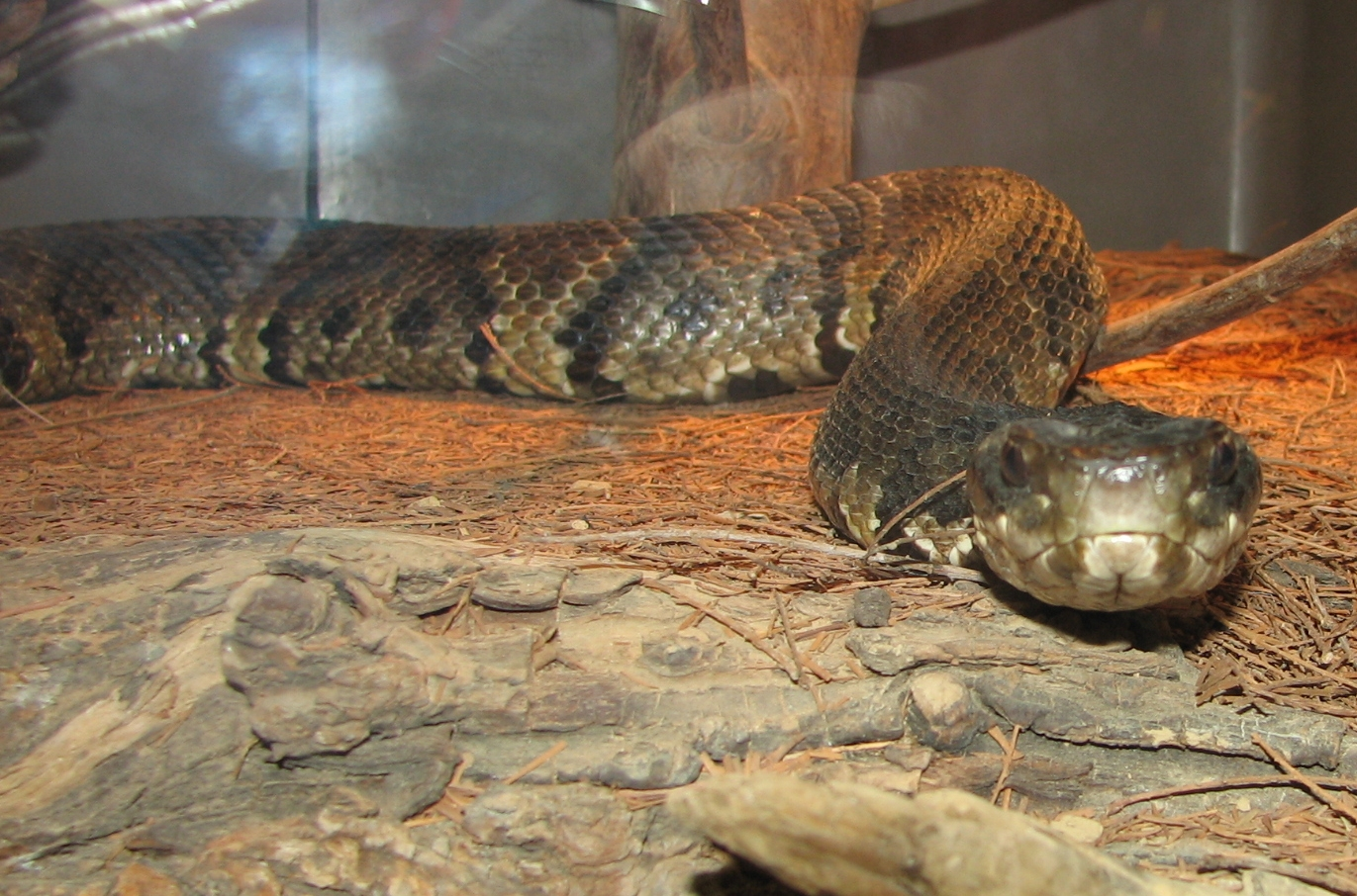 Cottonmouth - Agkistrodon piscivorus